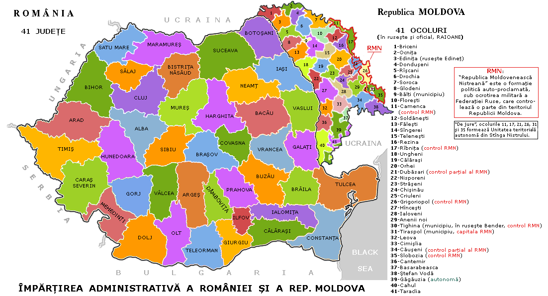 Romania's 41 judeţe & Moldova's 41 raioane (2010)